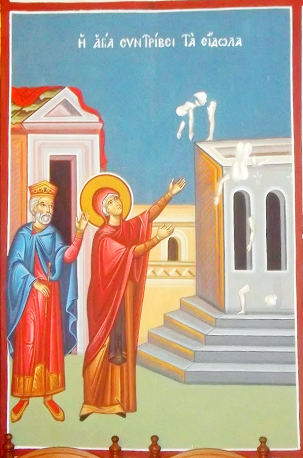 Paraskevi of Rome - All statues in the temple fell from their pedestals